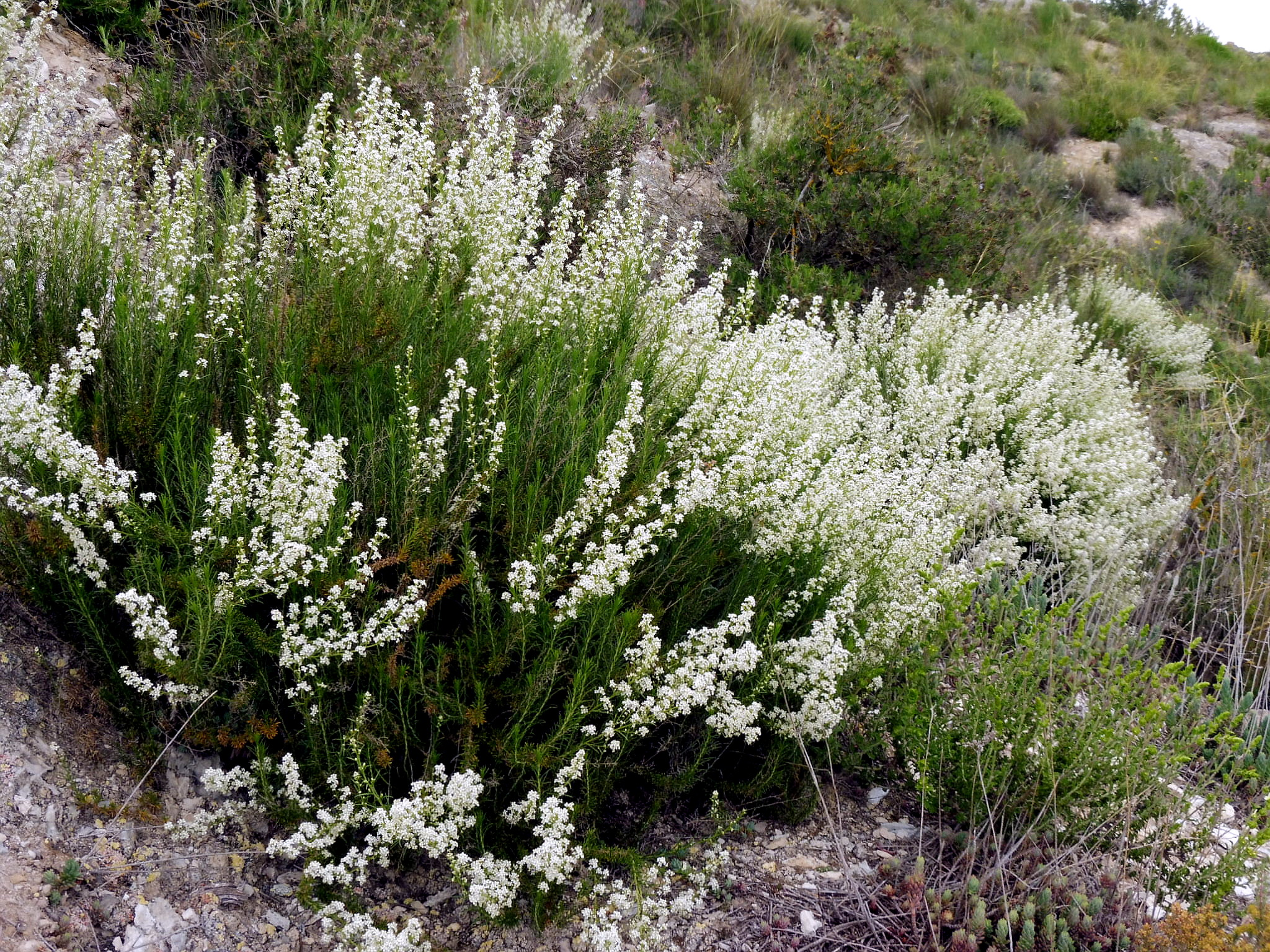 Lepidium subulatum. In Torà (Segarra-Catalunya). To 465 m. altitude